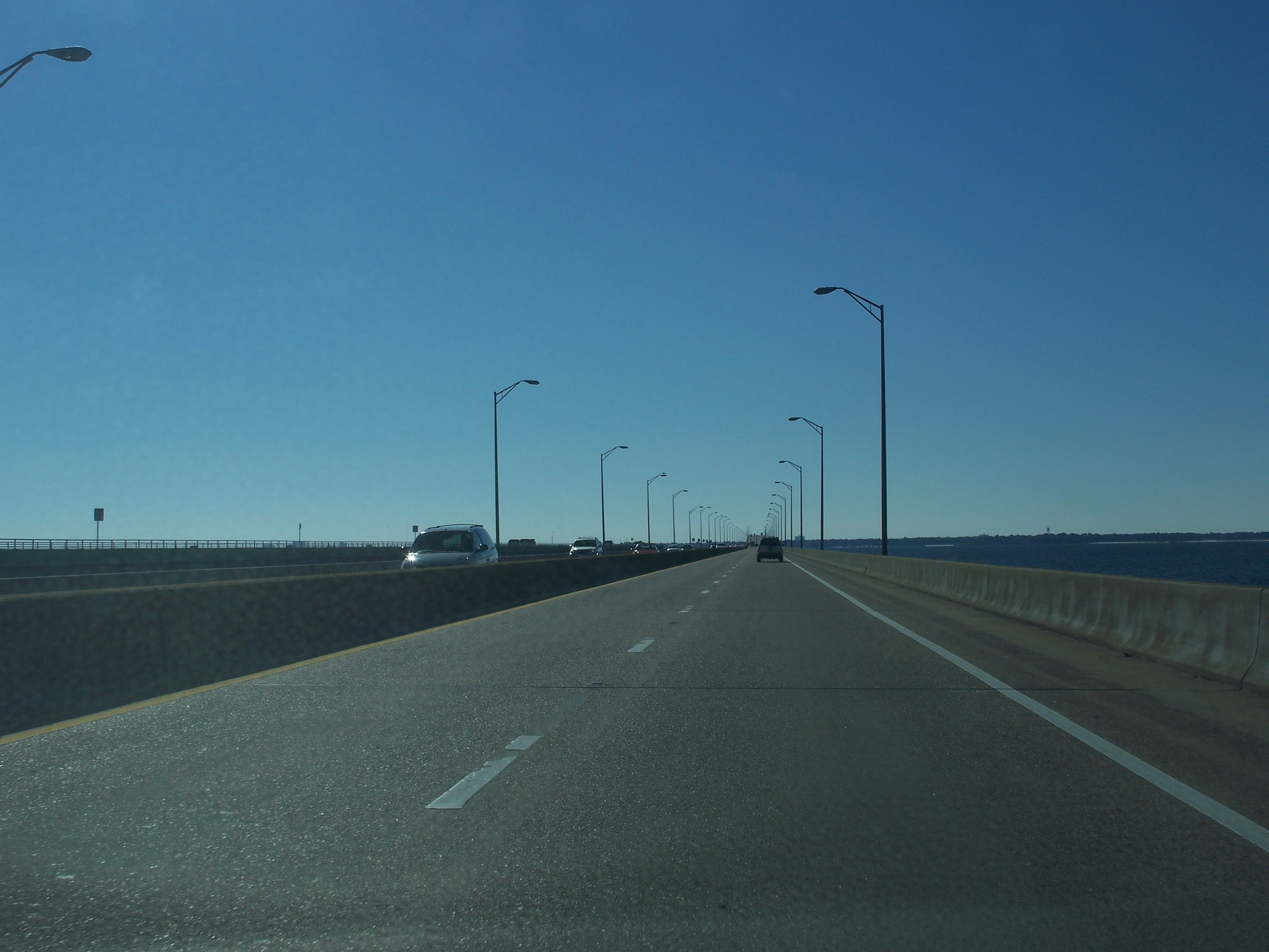 Pensacola, Florida: US 98 bridge, looking south